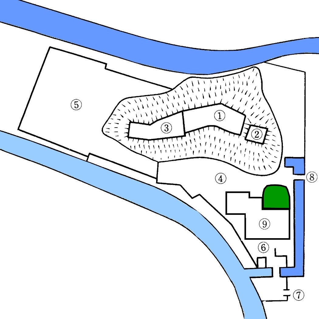 Layout of former Tokushima Castle